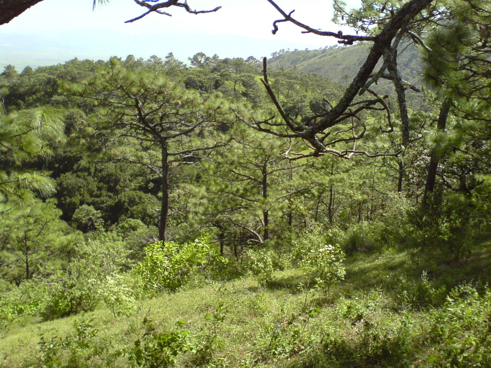 Pinus devoniana forest. Cerro de San Juan, Nayarit.